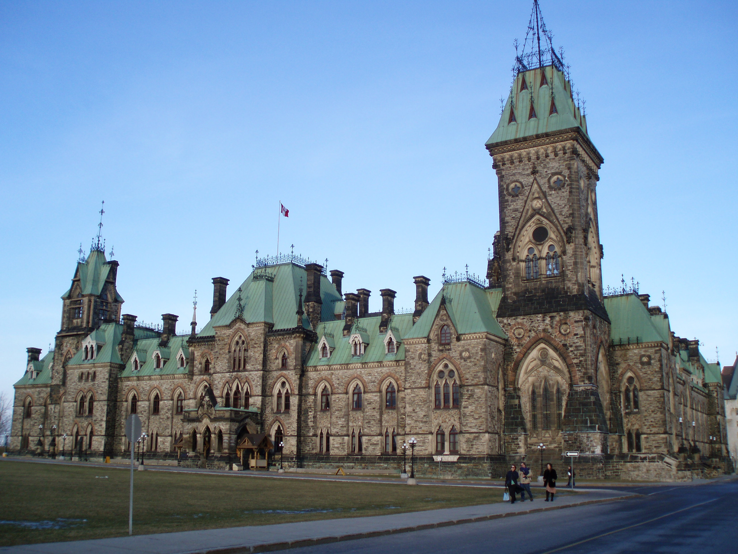 East Block, Parliament Hill, Ottawa.